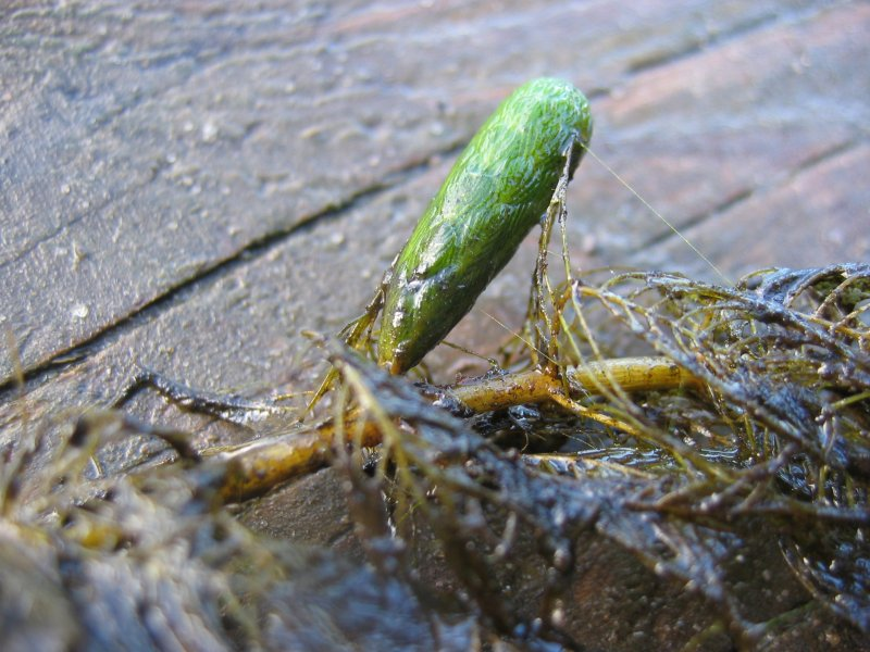 Turion eines Quirl-Tausendblattes Myriophyllum verticillatum